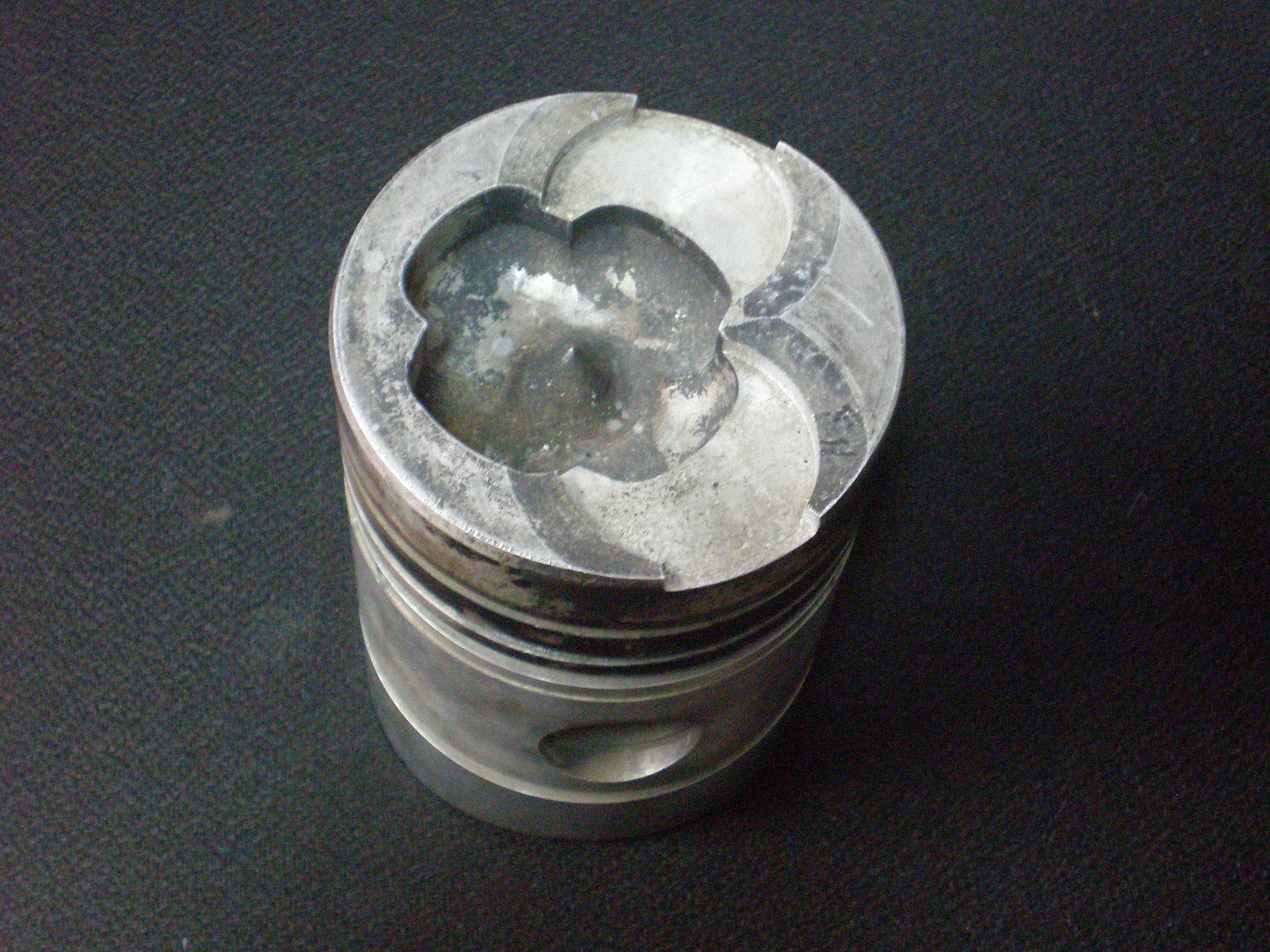 Combustion chamber with fire bridges patented 1974 in Poland